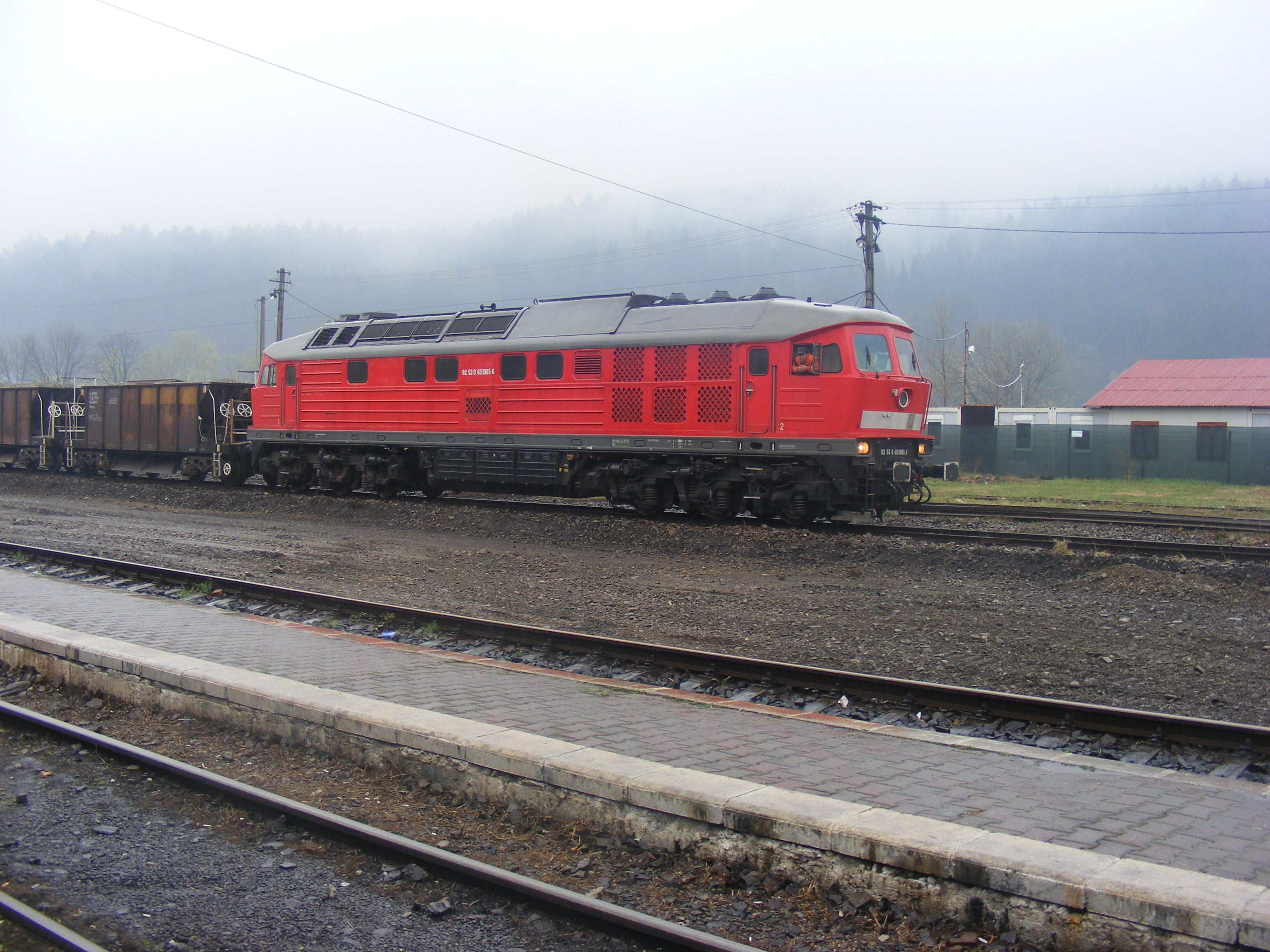 Diesel locomotive DB 232 614-8 (current number 651 005) in Piatra Neamt railway station. This locomotive was made in 1979 at the Luhansk locomotive works, USSR (currently Luhansk People's Republic/Ukraine), and in 2008 it was transferred to DB Schenker Romania